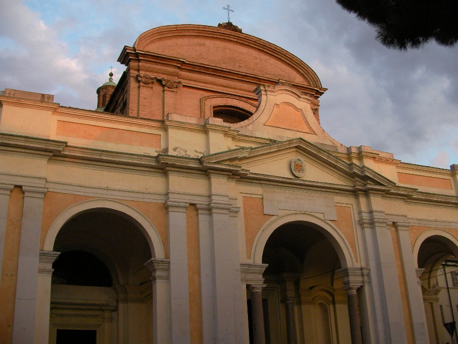 External of the Cathedral of Ravenna